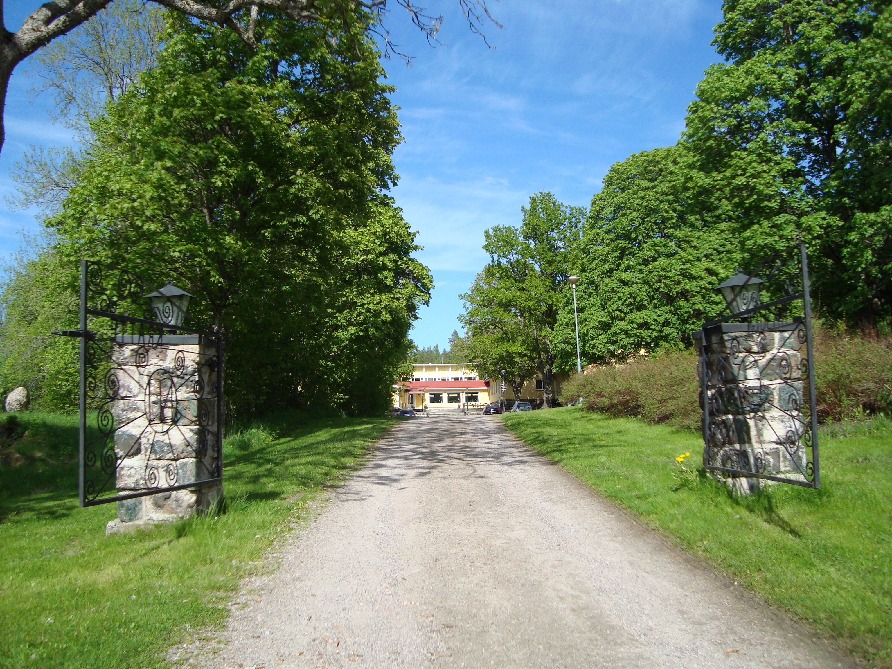 Former iron works of Kratten, Hofors Municipality, Sweden.